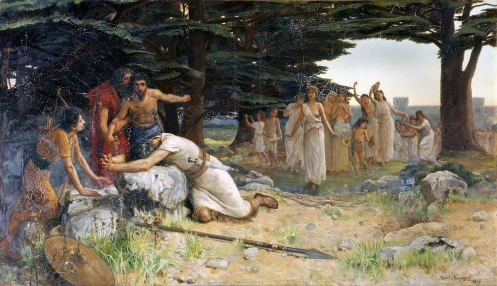 Macgregor, Jessie; Jephthah; Walker Art Gallery